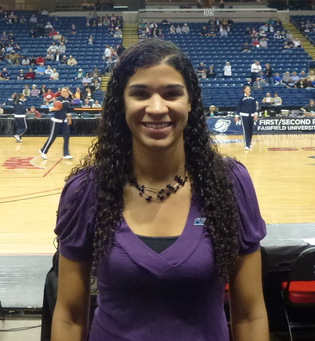 Marlies Gipson Director of Video operations Kansas State. Former player for the Wildcats. Photo taken prior to second round of NCAA tournament in a game between UConn and KState